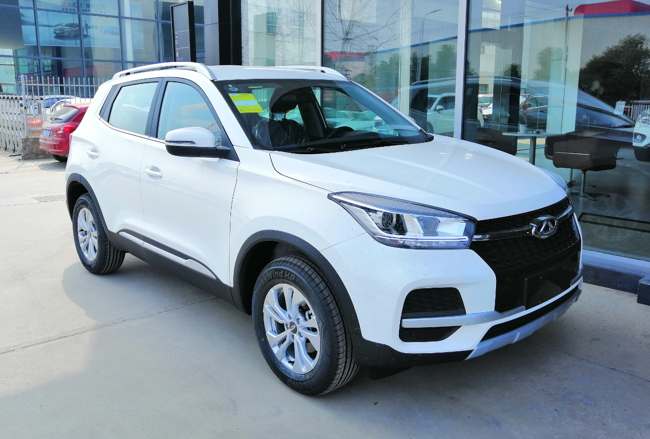 Chery Tiggo 5X facelift photographed in Hefei, Anhui province, China.